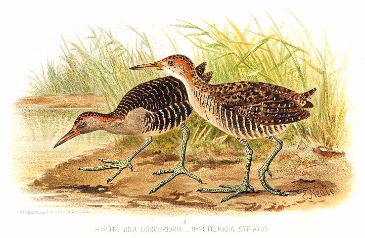 Hypotoenidia obscurioria = Gallirallus striatus obscurior - Hypotoenidia striatus = Slaty-breasted Rail (Gallirallus striatus)